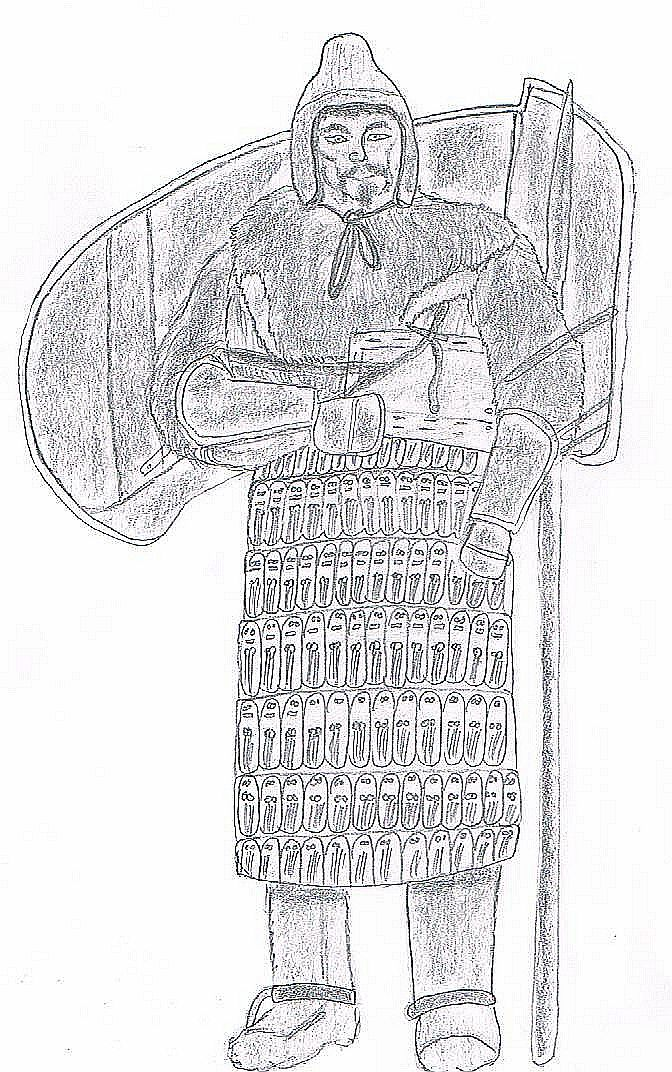 Koryak Armour